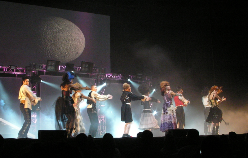 dancers from So You Think You Can Dance performing a zombie dance to Róisín Murphy's "Ramalama (Bang Bang)" in Buffalo, New York, United States